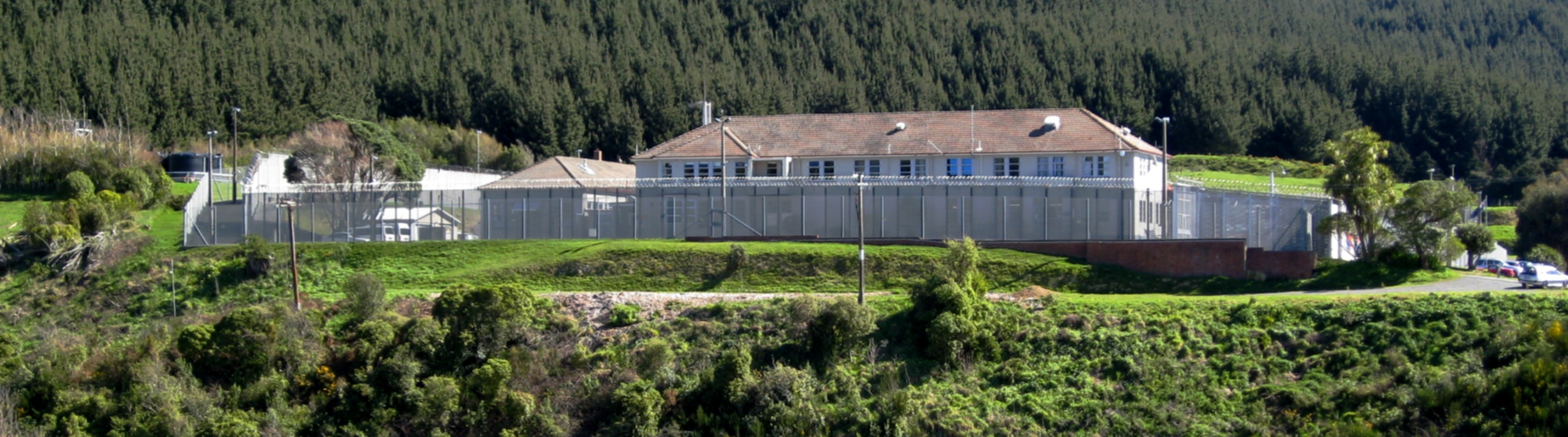 Arohata Women's Prison, taken from the carpark of the supermarket on the opposite side of the valley near the motorway. Arohata Women's Prison, taken from the carpark of the supermarket on the opposite side of the valley near the motorway.